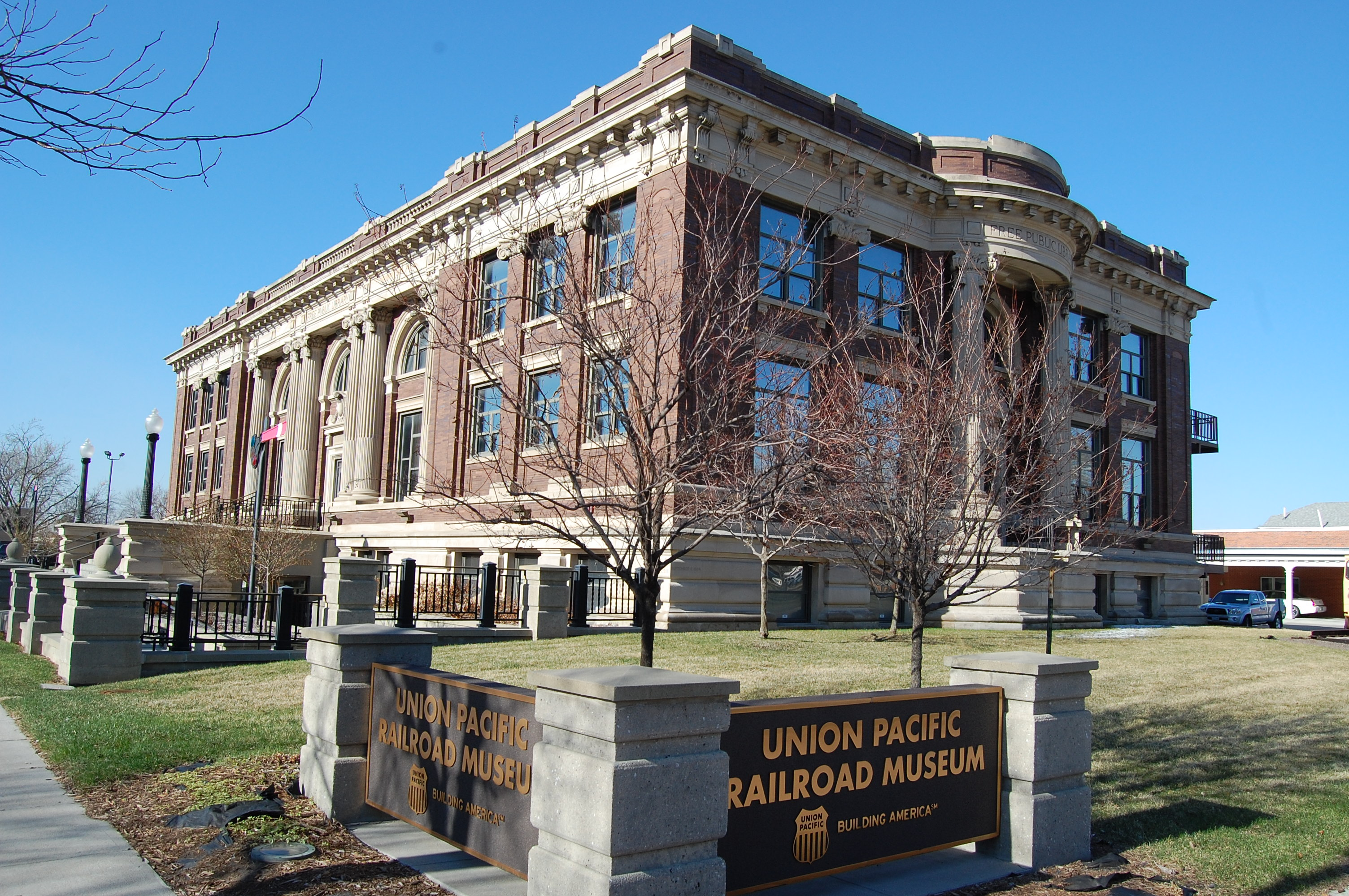 The museum itself is a beautiful Beaux Arts-style building. To learn more, visit .